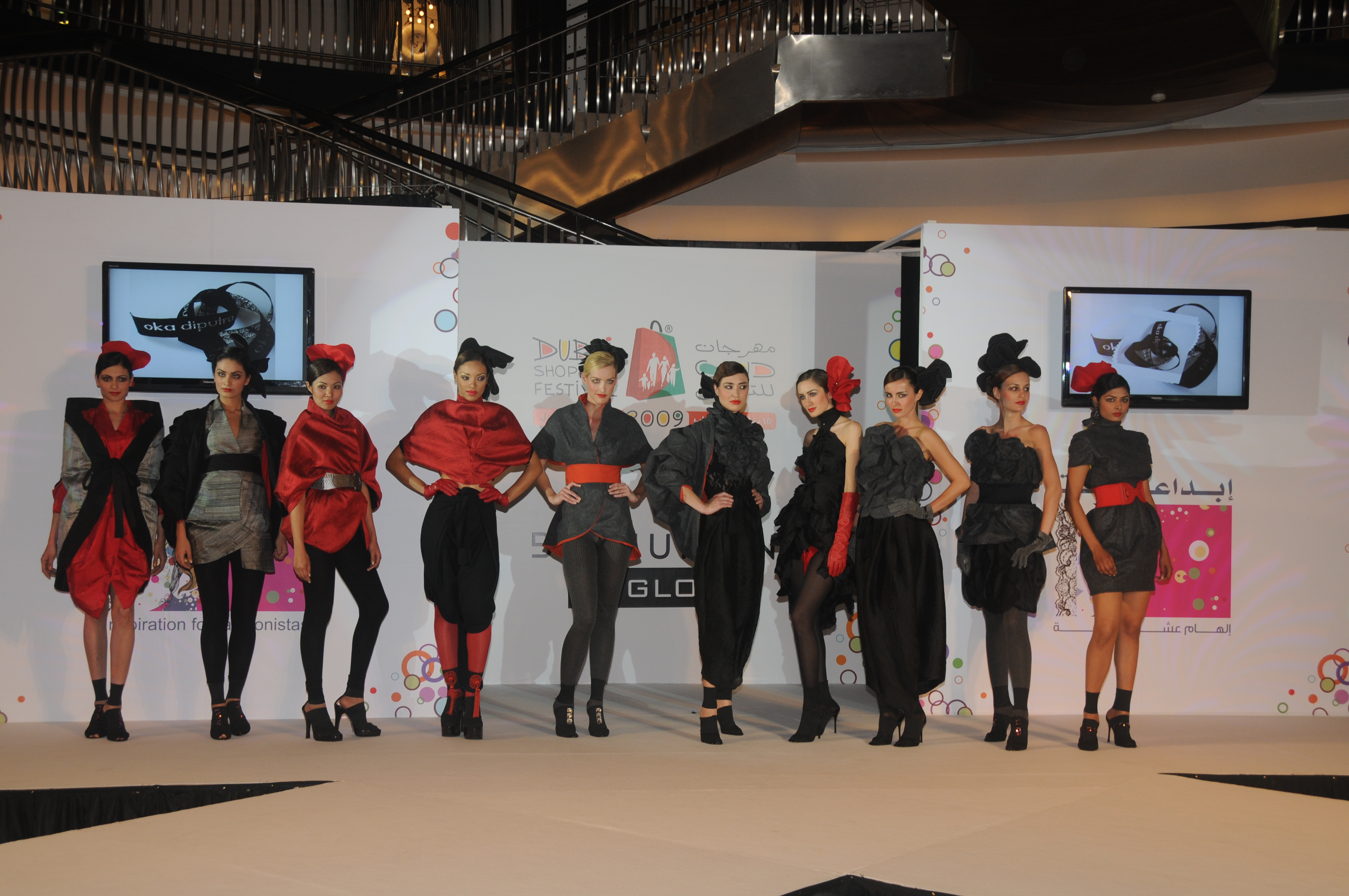 finale of fashion show